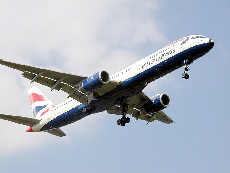 British Airways Boeing 757-200 (G-CPEN) landing at London (Heathrow) Airport.